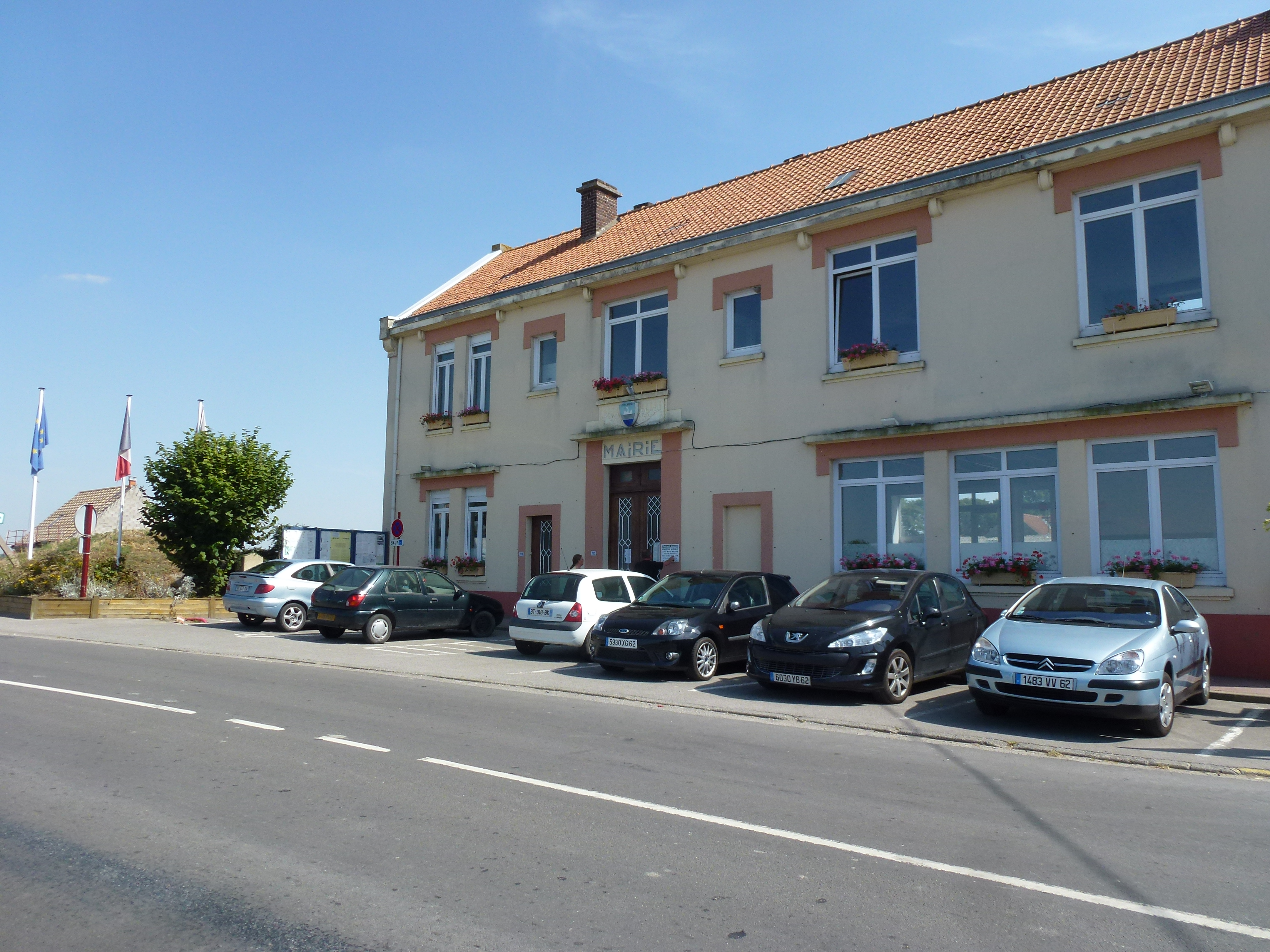 Guemps (Pas-de-Calais) mairie